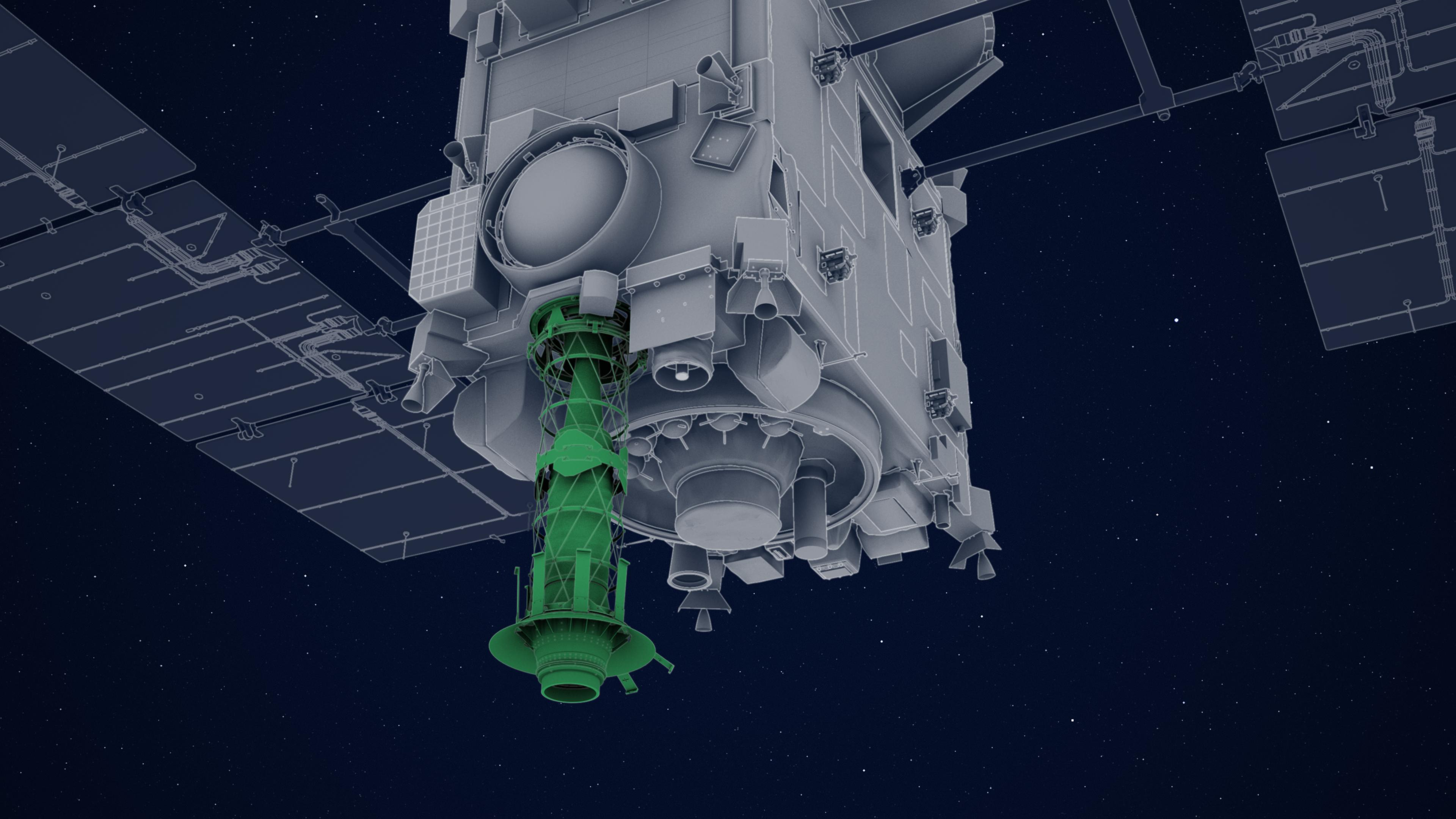 Hayabusa 2 Sampler Horn